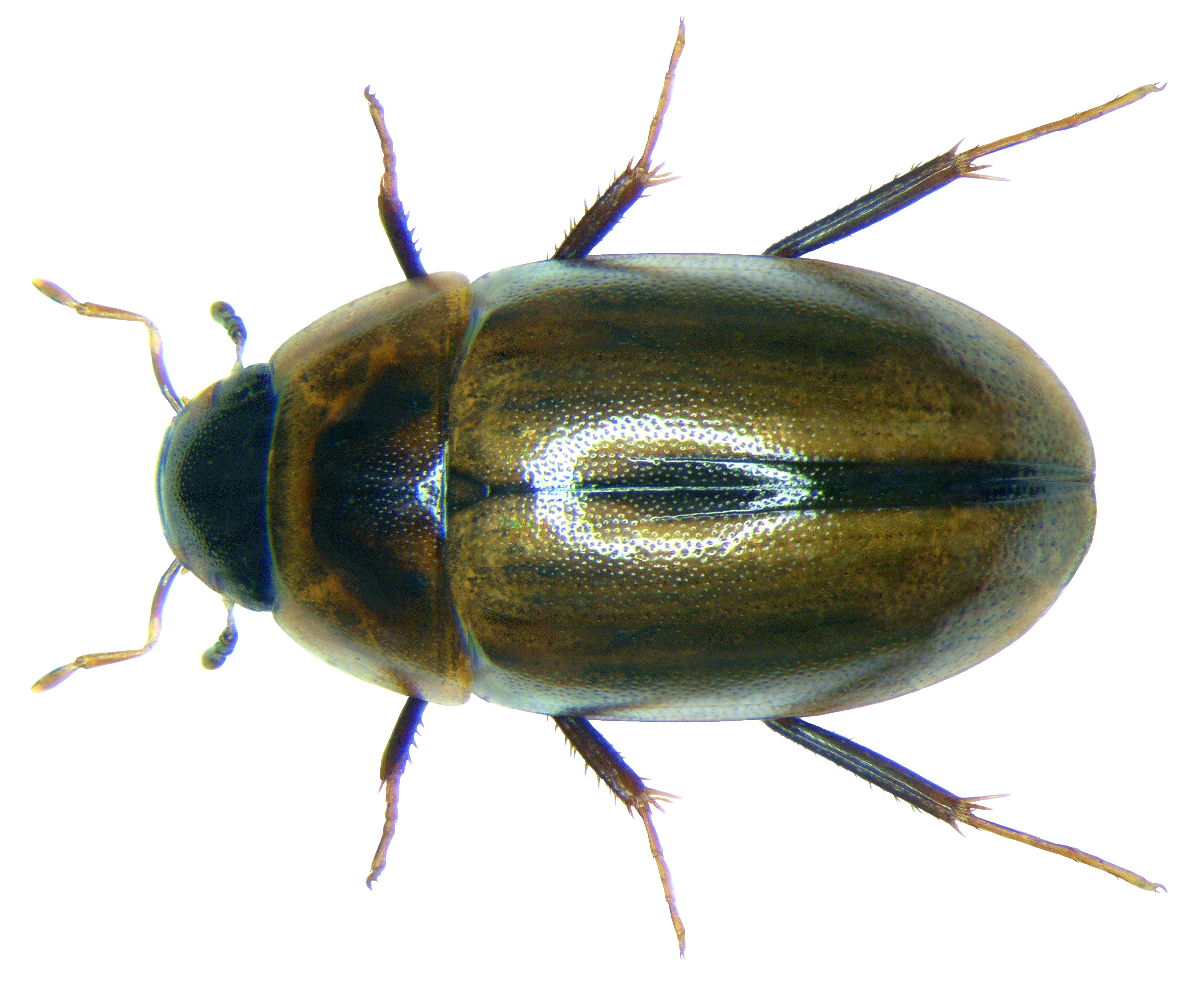 Enochrus coarctatus, a beetle in the family Hydrophilidae Familie: Hydrophilidae Grösse: 3,8-4 mm Verbreitung: Europa Ökologie: vor allem in sauren Gewässern Fundort: Germania, Oberfranken, Rehau leg.det. U.Schmidt, 2006 Foto: U.Schmidt, 2008